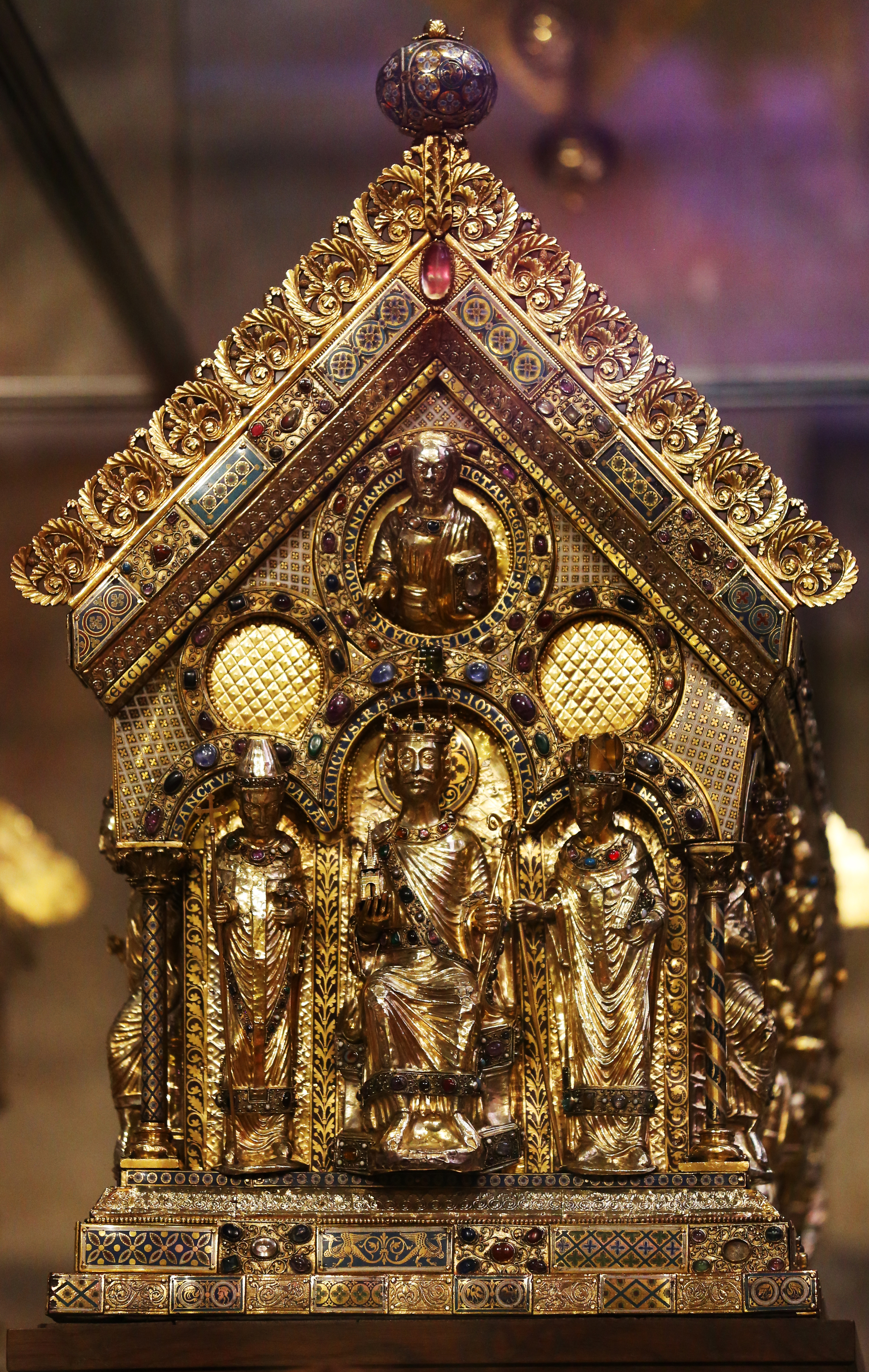 Shrine of Charlemagne, Interior of palatine chapel in Aachen Cathedral, Germany.